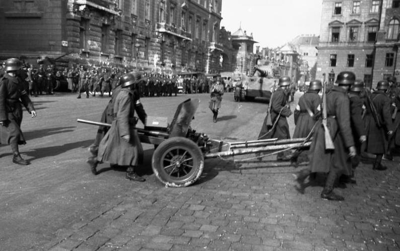 The soldiers on the foreground are moving a hungarian 40 mm MAWAG anti-tank gun M1940 (designated as 40.M or 40M). The King Tiger on the backround is of Schwere Panzer-Abteilung 503, an only Tiger II unit to go to Budapest[1]